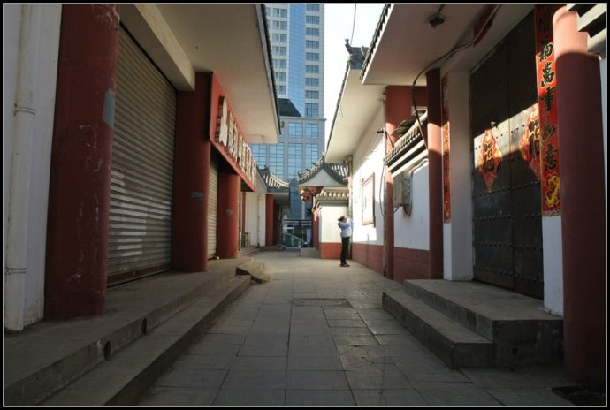 Huichexiang in Handan Old Town